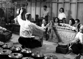 Hood dirigiendo a un ensamble de Gamelan balinés